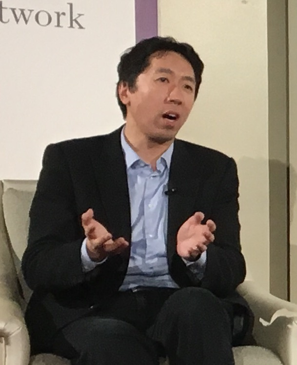 Andrew Ng at WSJ CIO Dinner on AI